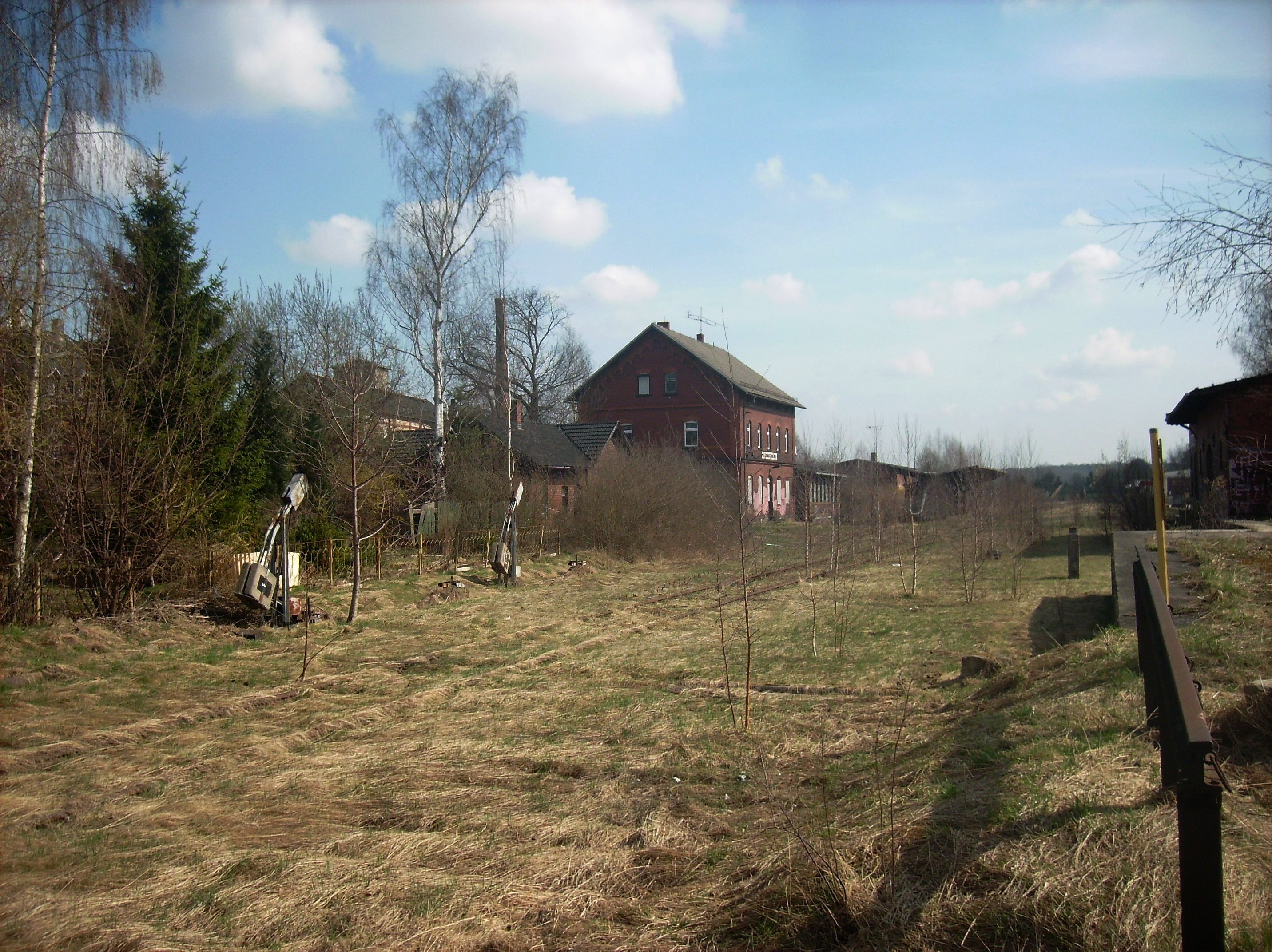 Former Geringswalde station at the Waldheim - Rochlitz railway line (Mittelsachsen district, Saxony)